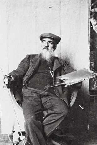 Giuseppe Sciuti in Rome, 1902